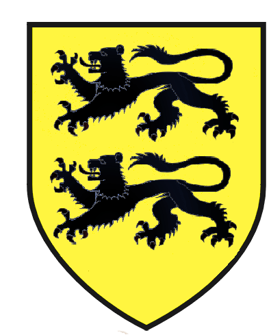 Recreation of the Coat of Arms of the O'Rourkes (Custom)